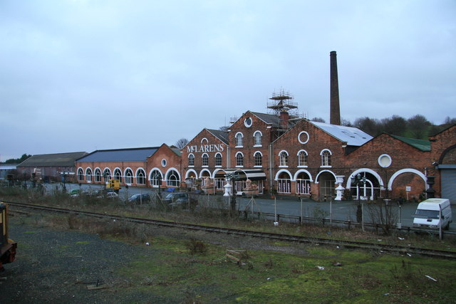 Cambrian Railway works, Oswestry The long since closed Cambrian Railway Works. Oswestry was once quite a rail centre and this works built much rolling stock and overhauled locos in addition to building a couple (or so) locos. It is now a fine antique furniture store. The chimney is a fine example - 150' tall with a square plinth and octagonal stack. We were busy bypassing Oswestry when the chimney pulled us in siren-like.